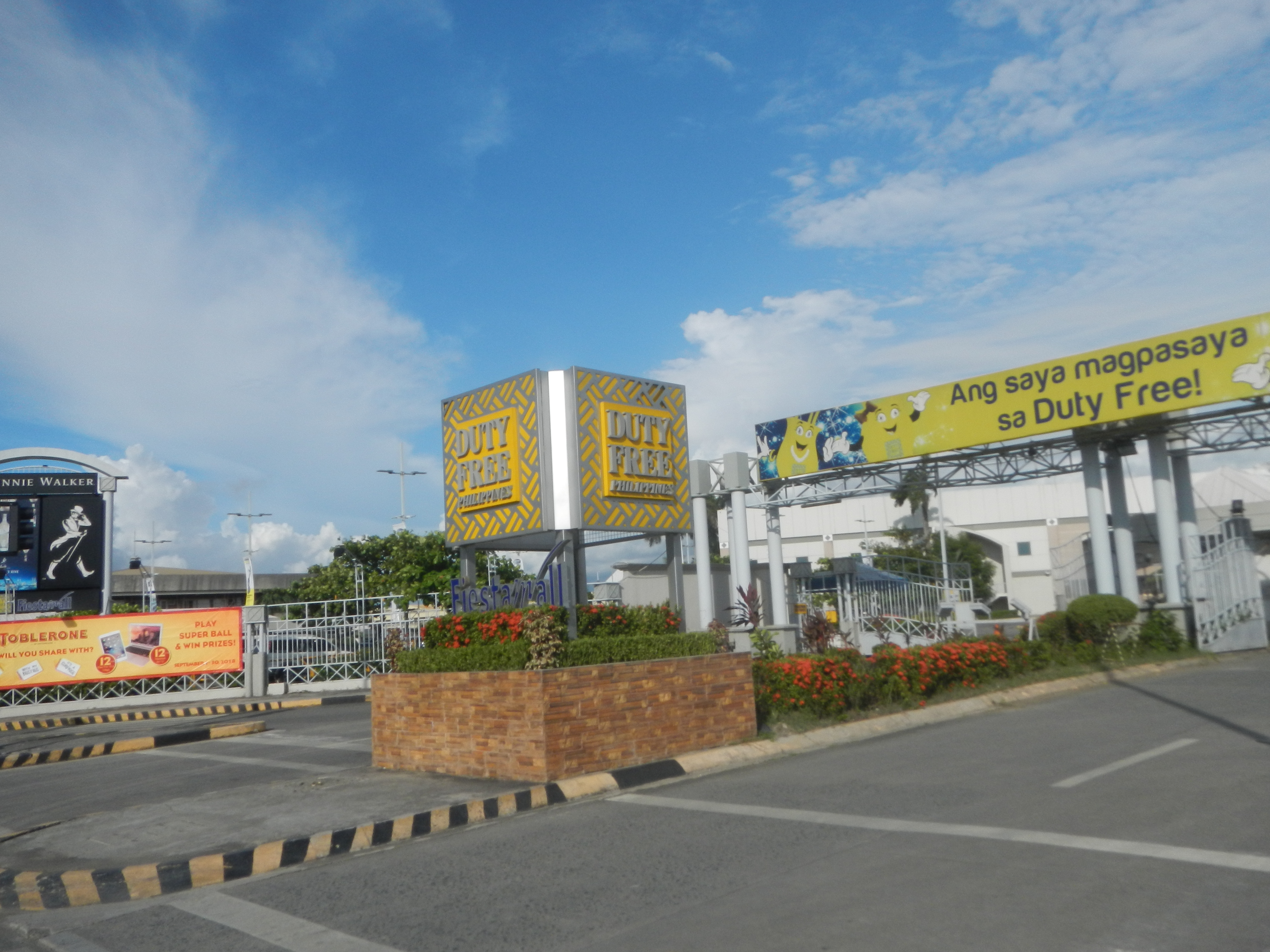 Ninoy Aquino Avenue from Dr. A. Santos Avenue (San Dionisio, San Isidro, San Antonio and BF Homes, Parañaque City) Sucat Road 4°27'58"N 121°1'0"E Dr. A. Santos Avenue List of barangays of Metro Manila, Legislative districts of Parañaque 1st District, Districts and barangays, Barangays San Dionisio 14°29'2"N 120°59'33"E San Isidro, Parañaque San Isidro 14°28'1"N 121°0'40"E San Antonio 14°27'56"N 121°1'52"E BF Homes Parañaque, Parañaque City List of barangays of Metro Manila Pasay City towards NAIA Road NAIA Expressway Phase 1 (Skyway) and Phase 2 (NAIAx) (Note: Judge Florentino Floro, the owner, to repeat, Donor Florentino Floro of all these photos hereby donate gratuitously, freely and unconditionally Judge Floro all these photos to and for Wikimedia Commons, exclusively, for public use of the public domain, and again without any condition whatsoever).